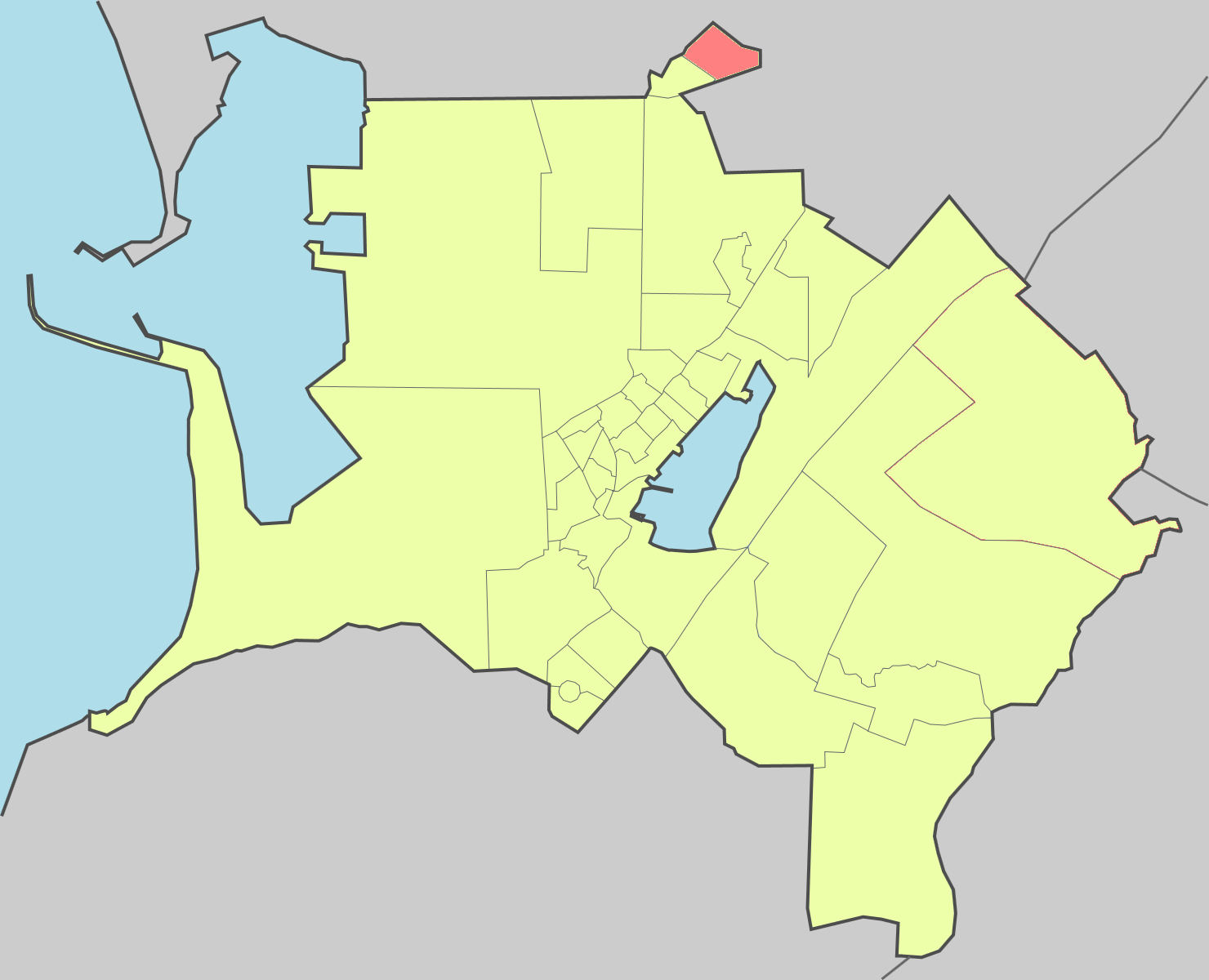 Zuoying location